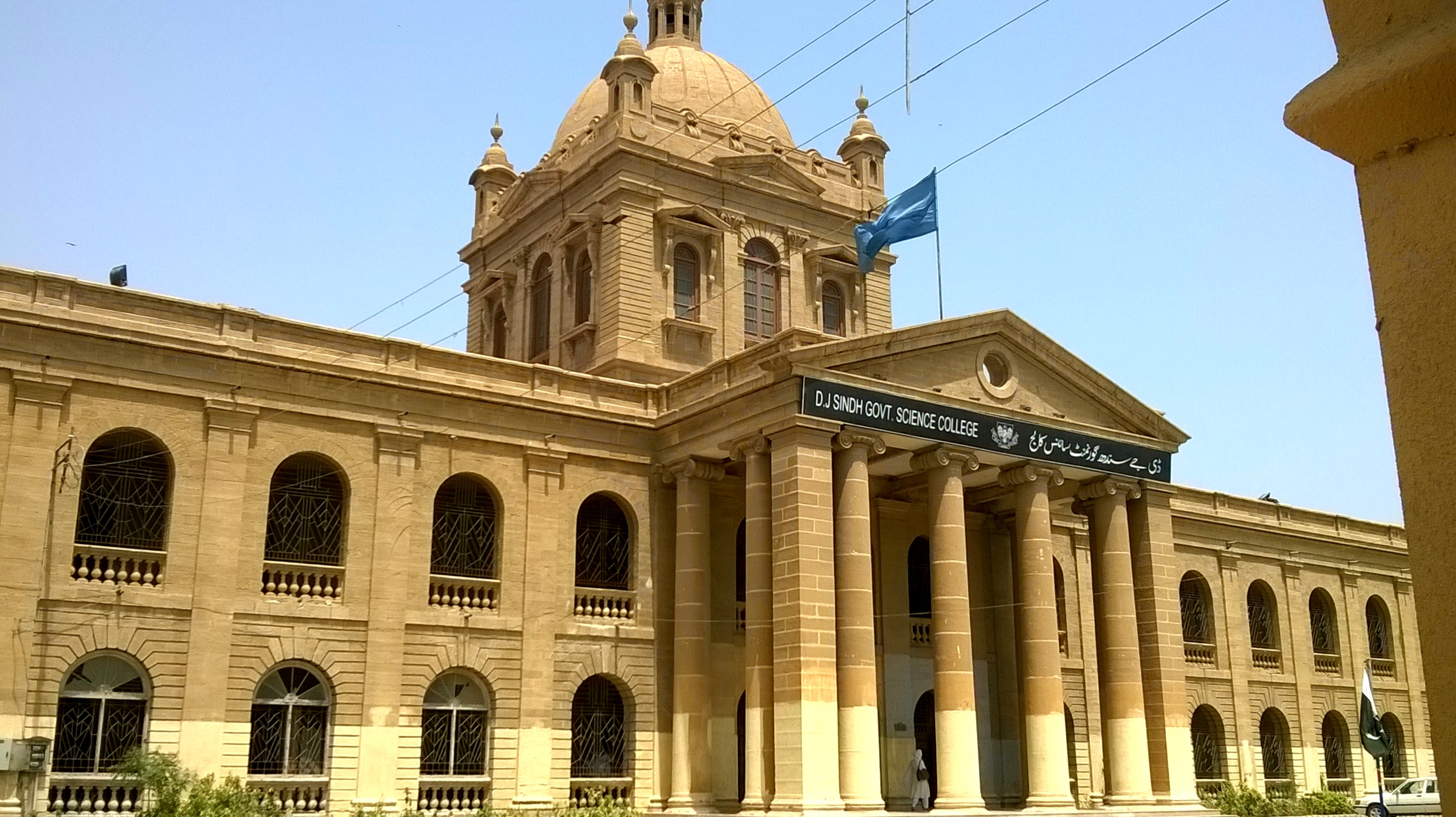 D.J. Science College: Geology & Math Departments (originally the principal's bungalow) This is a photo of a monument in Pakistan identified as the SD-P-79